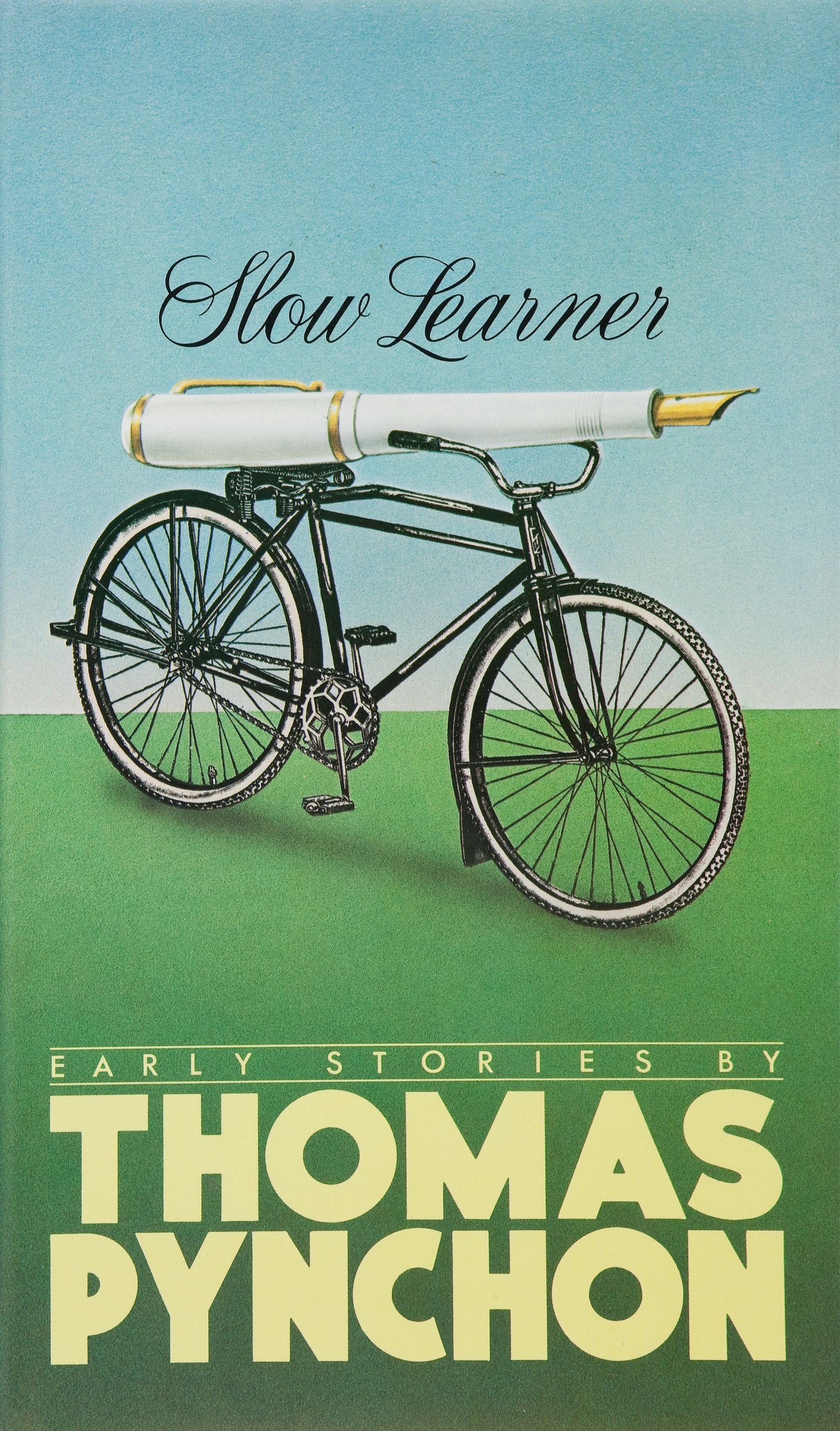 Cover design from the first-edition dust jacket of the 1984 short story collection Slow Learner by the American author Thomas Pynchon. Published by Little, Brown.